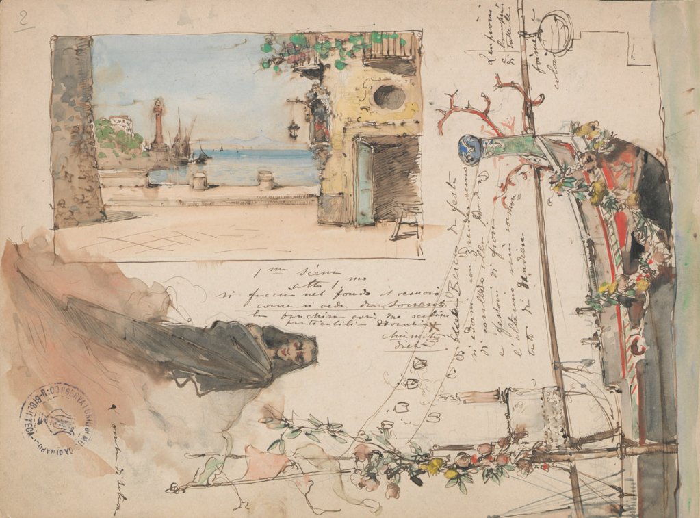 Set designs for the premiere of Nicola D'Arienzo's opera La figlia del diavolo, Teatro Bellini, Naples, 16 November 1879